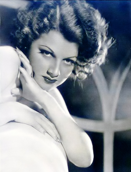 Publicity photo of Ann Sheridan for Argentinean Magazine. (Printed in USA)